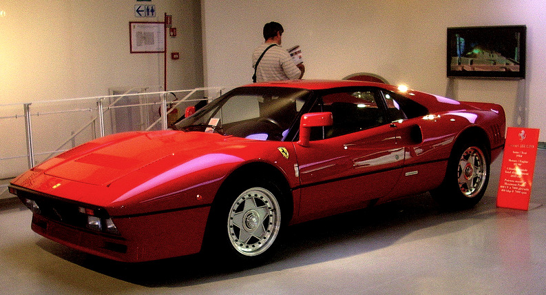 An other car by the Ferrari museum in Maranello.